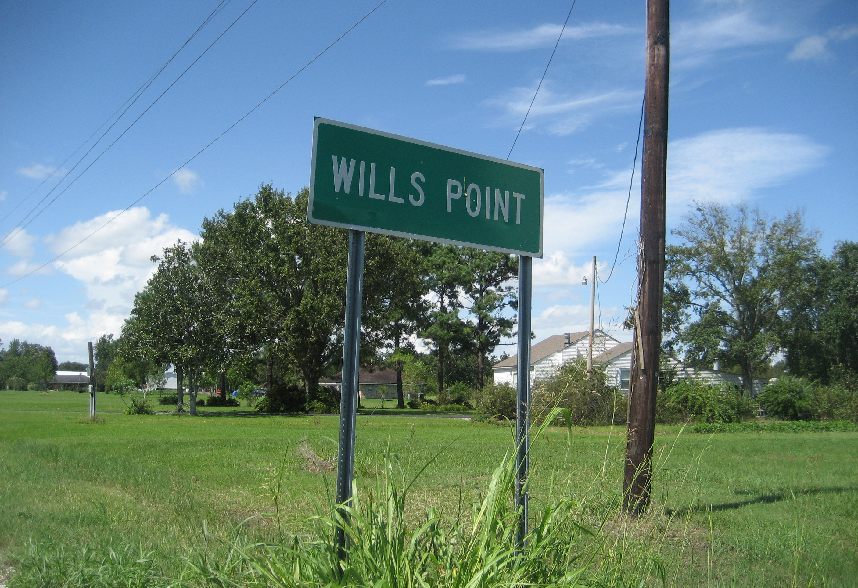 Sign marking Wills Point, Plaquemines Parish, Louisiana.